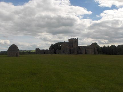 Kilcooly Abbey. Photo by William Bennett